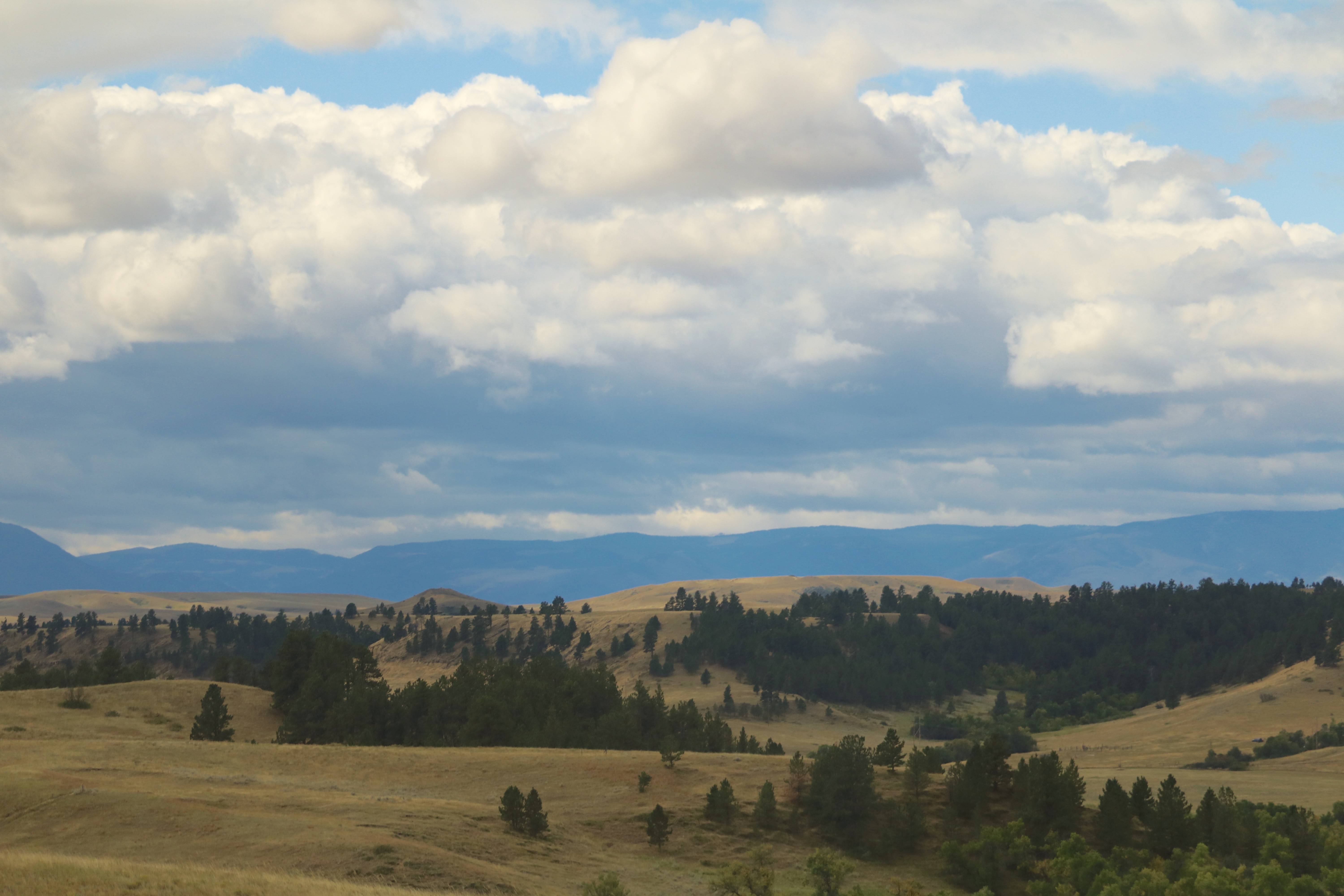 Images taken from Interstate 90 on the Crow Indian Reservation, Big Horn County, Montana, in the Crow Agency/Lodge Grass area